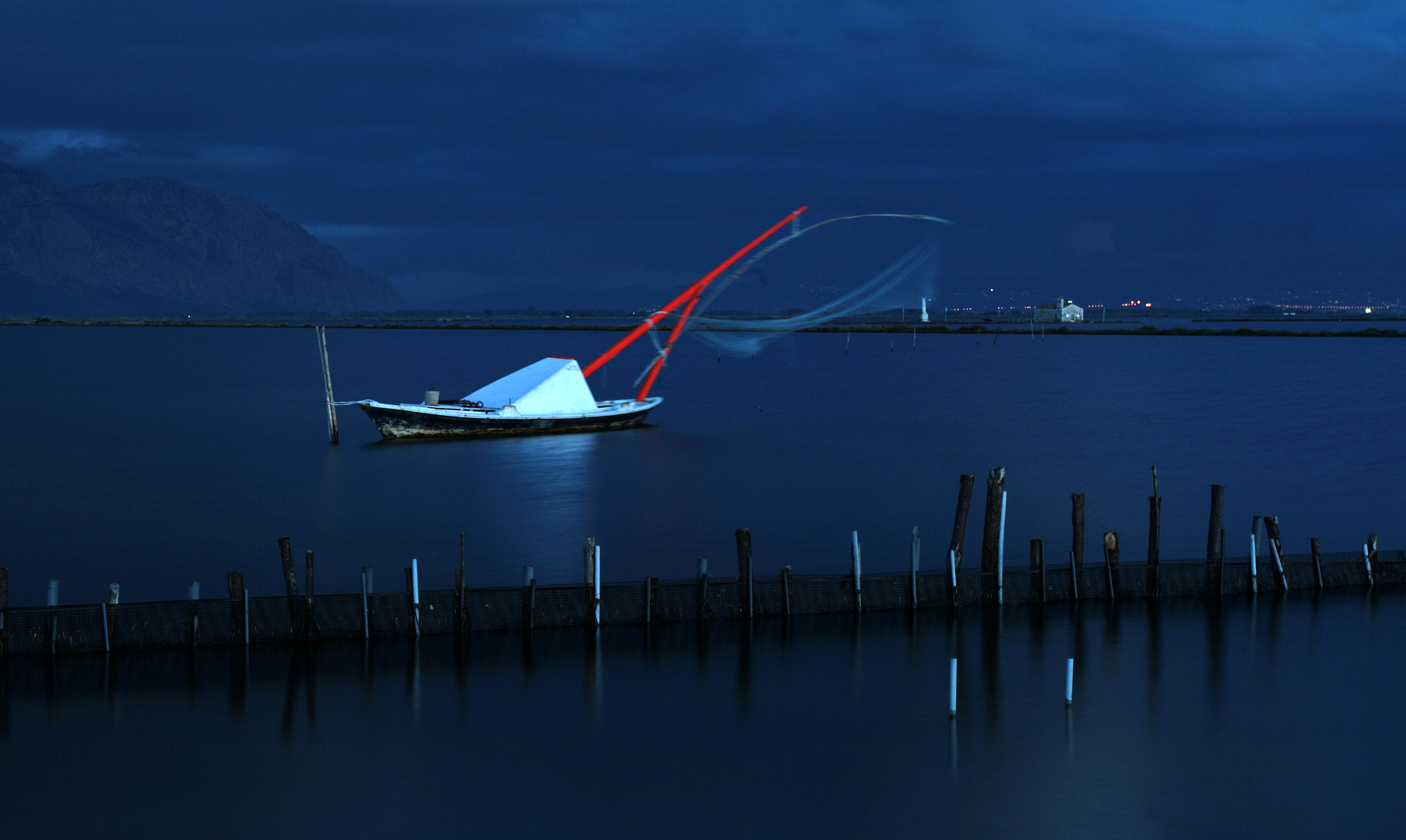 This is a photography of Natura 2000 protected area with ID GR2310001